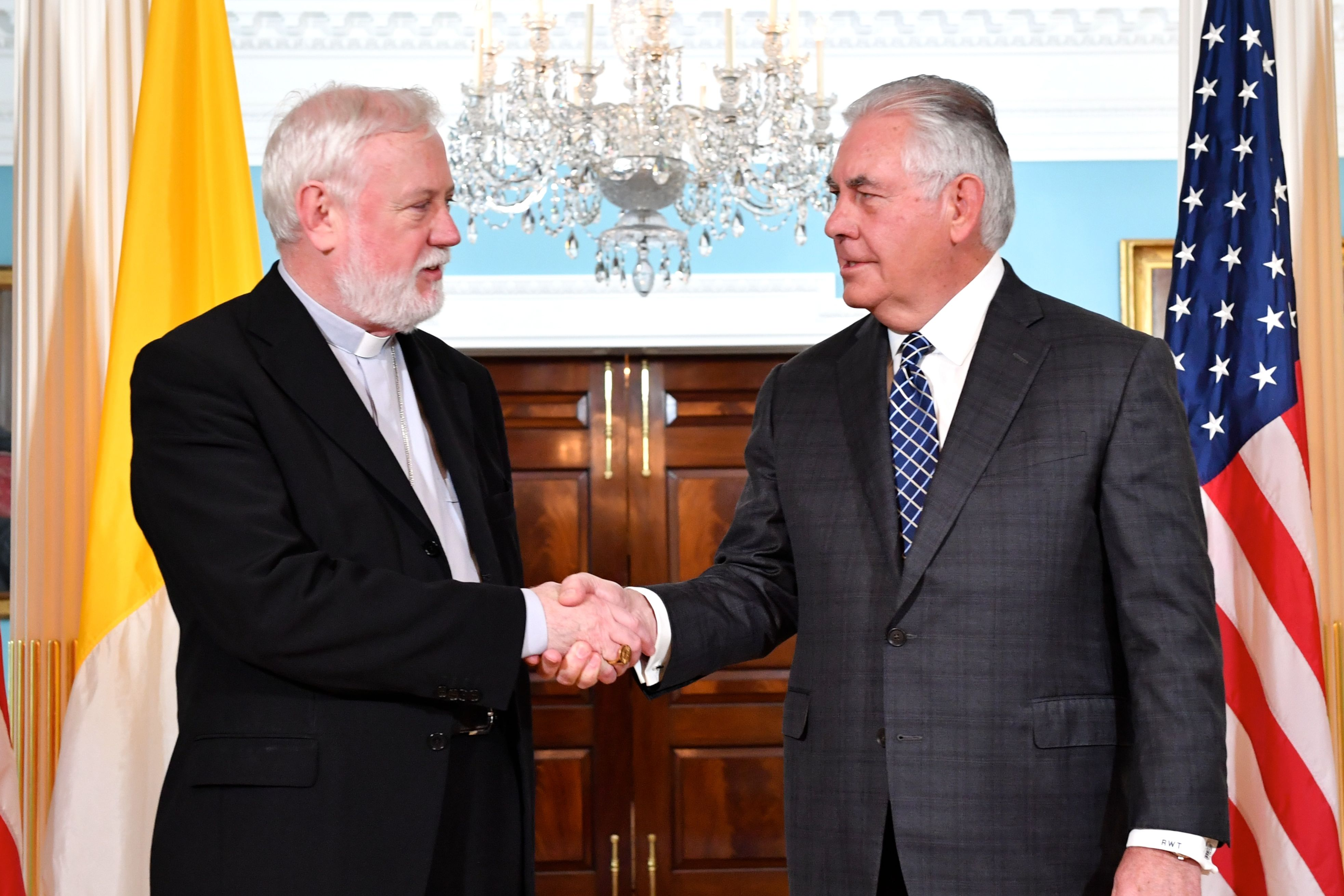 U.S. Secretary of State Rex Tillerson shakes hands with Holy See Secretary for Relations with States Paul Gallagher before their meeting at the U.S. Department of State in Washington, D.C. on September 26, 2017. [State Department Photo/ Public Domain]